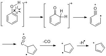 Most common fragmentation mechanism of phenols